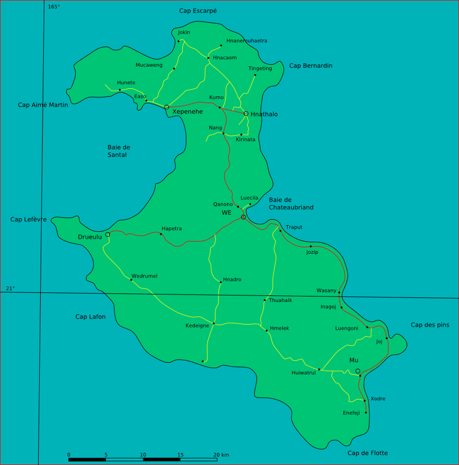 map of Lifou, central islands of loyalty islands, New Caledonia dependency, oceania